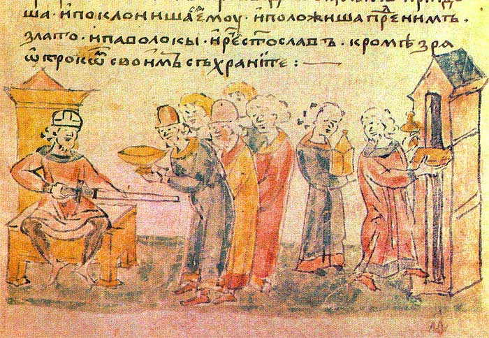 Radzivill chronicle. Knyaz Svyatoslav and greeks.